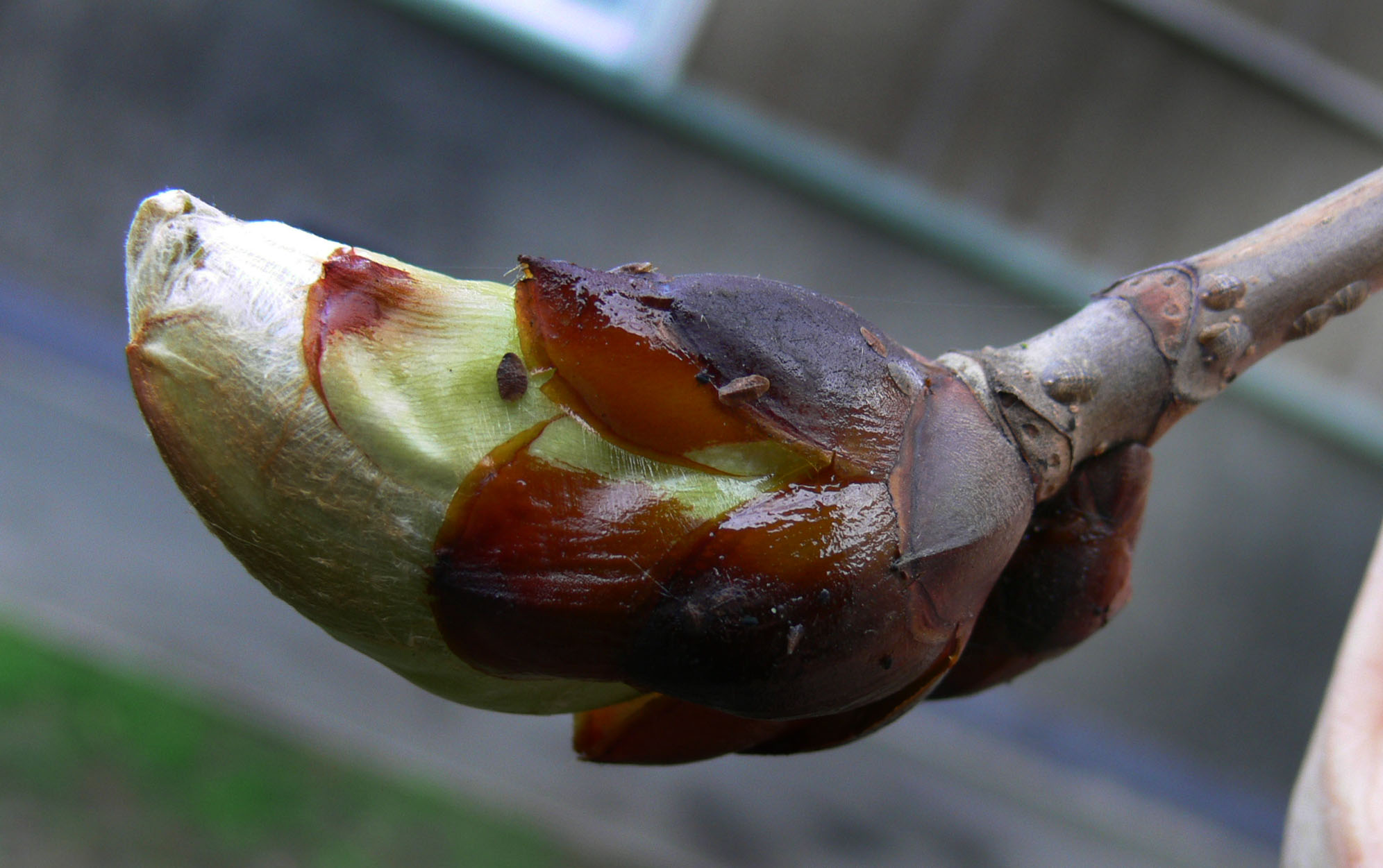 First buds on Aesculus hippocastanum, photographed in Lille (north of France)